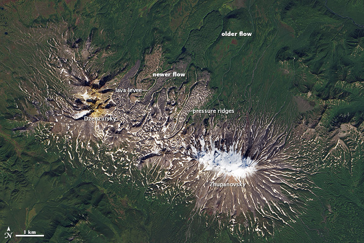 Many characteristics of a low-viscosity lava flow are visible in this image of Zhupanovsky and Dzenzursky volcanoes on Russia’s Kamchatka Peninsula. The image was acquired by the Operational Land Imager (OLI) on the Landsat 8 satellite on September 9, 2013. In the image, younger lava flows appear grey, while older flows are covered by green vegetation. The exact ages of the flows are unclear, but the eruptions that produced them likely occurred during the past few thousand years. Distinctive lava levees are visible along the edges of many of the younger flows. These features form as lava cools and hardens along the edges or top of a flow while the center of a flow still advances.